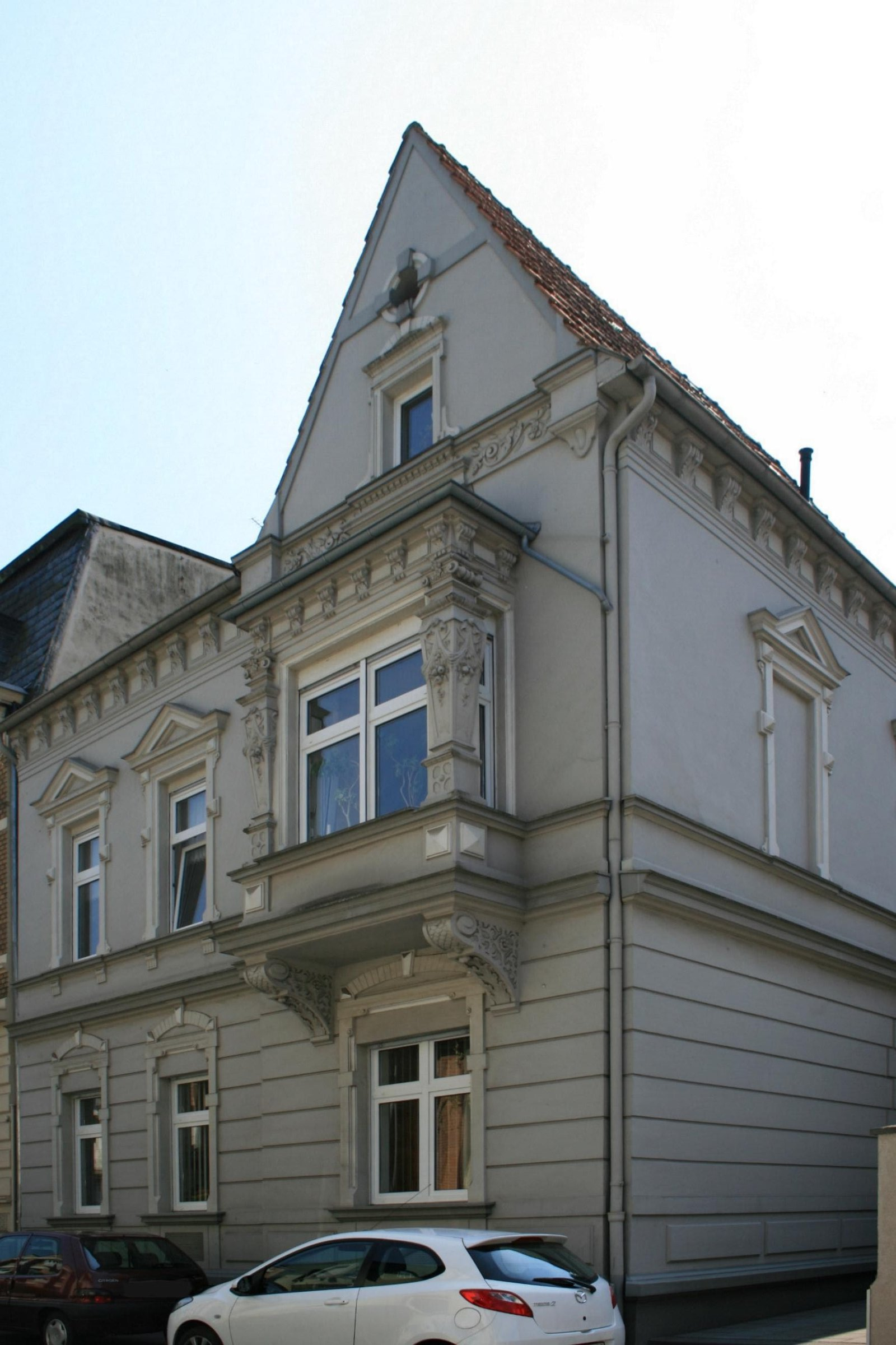 Cultural heritage monument No. W 034 in Mönchengladbach